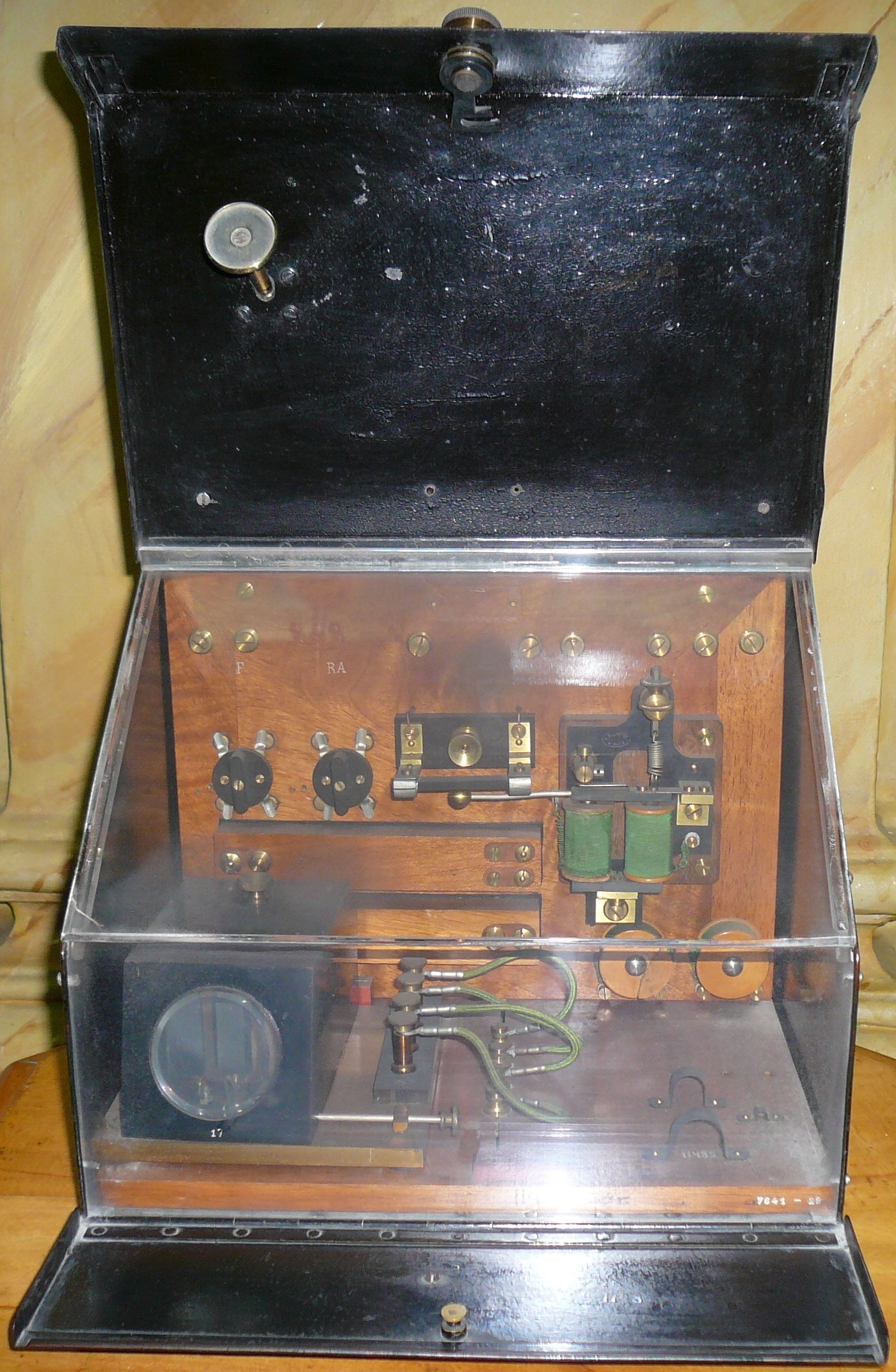 Early ship radio receiver designed by Alexander Stepanovich Popov, from around 1901. Popov in 1895 along with Guglielmo Marconi invented the first radio receivers. The receiver uses a coherer (center), a primitive radio wave detector consisting of a glass tube containing metal powder between two electrodes. When radio waves from the antenna are applied to the electrodes, the coherer becomes conductive. The coherer was also connected through a relay (lower left) to a battery and a paper tape recorder, and the current from the battery made a mark on the paper tape, or rang a bell. These signals were used to receive text messages in Morse code. The relay also activated an electromagnet (green objects, right) to move a metal arm to tap the coherer, disturbing the metal powder to restore it to a receptive state. The station is made of the exact calculations and drawings of Popov. By 1901 many ships of the Black Sea Fleet had been equipped with Popov's radio stations. Museum of Black Sea Fleet, Sevastopol, Ukraine